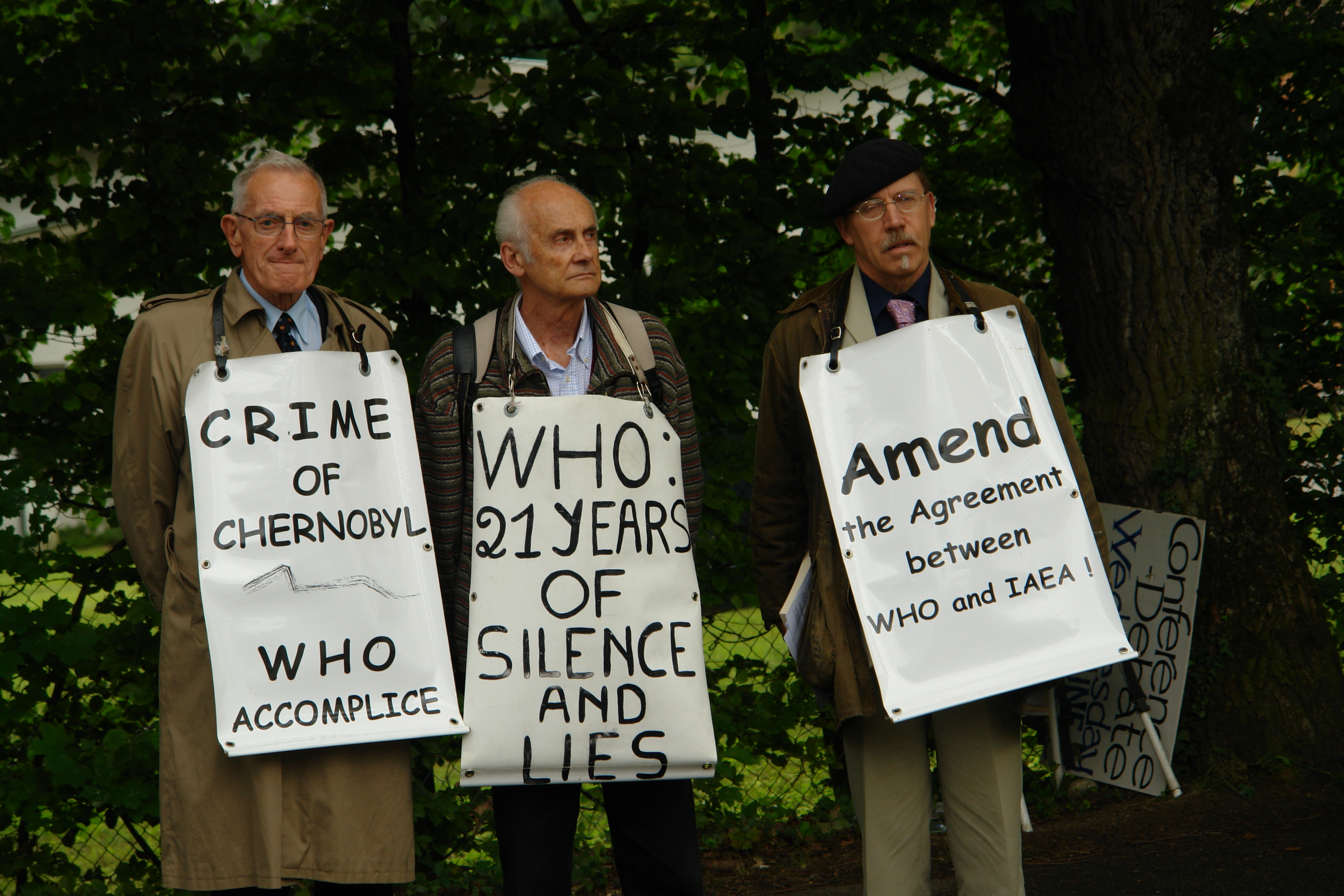 Dr. Michel Fernex, Professor Emeritus, Faculty of Medicine, Bâle, former Member, Steering Committee, Tropical Diseases Research, WHO. Wladimir Tchertkoff, Swiss journalist and film maker. Dr. Chris Busby, Scientific Secretary, European Committee on Radiation Risks; Director, Green Audit, Environmental Consultancy.